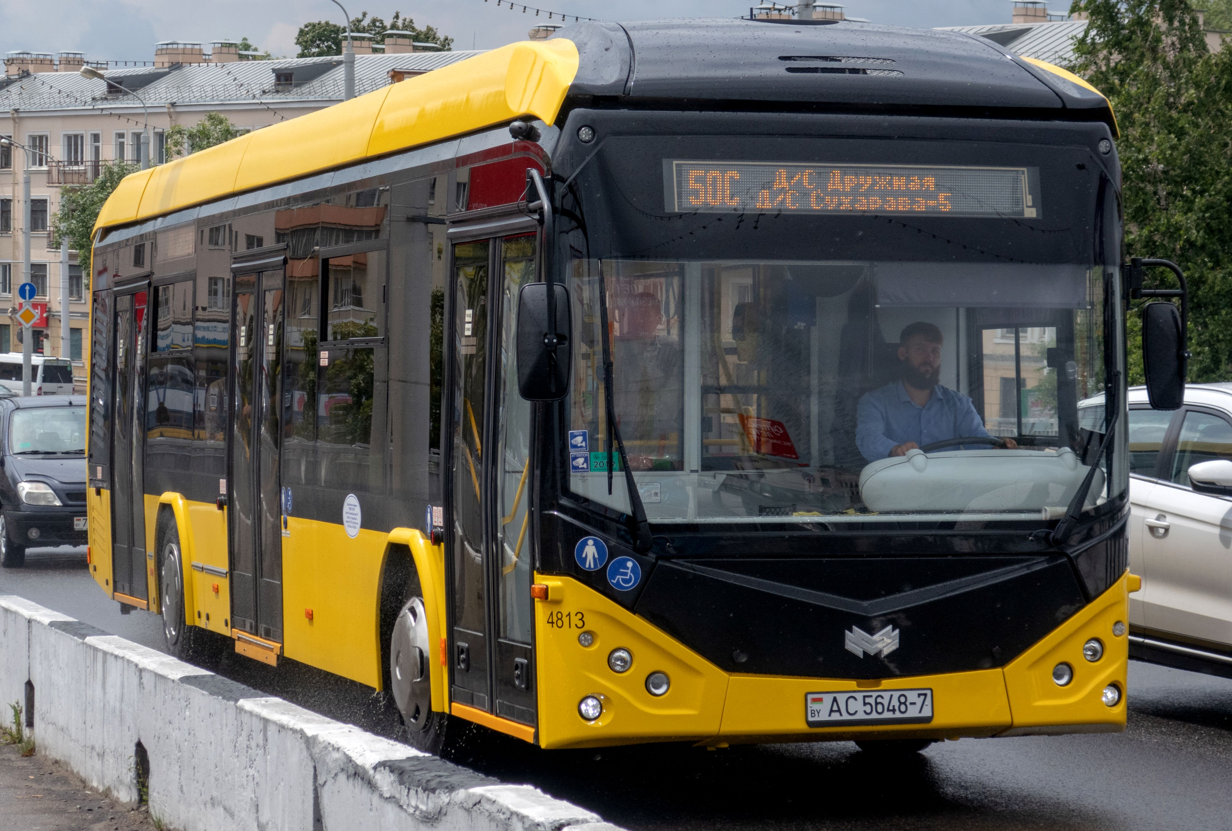 AKSM E321 electrobus made by Belkommunmash on 50s bus route in Minsk, Belarus